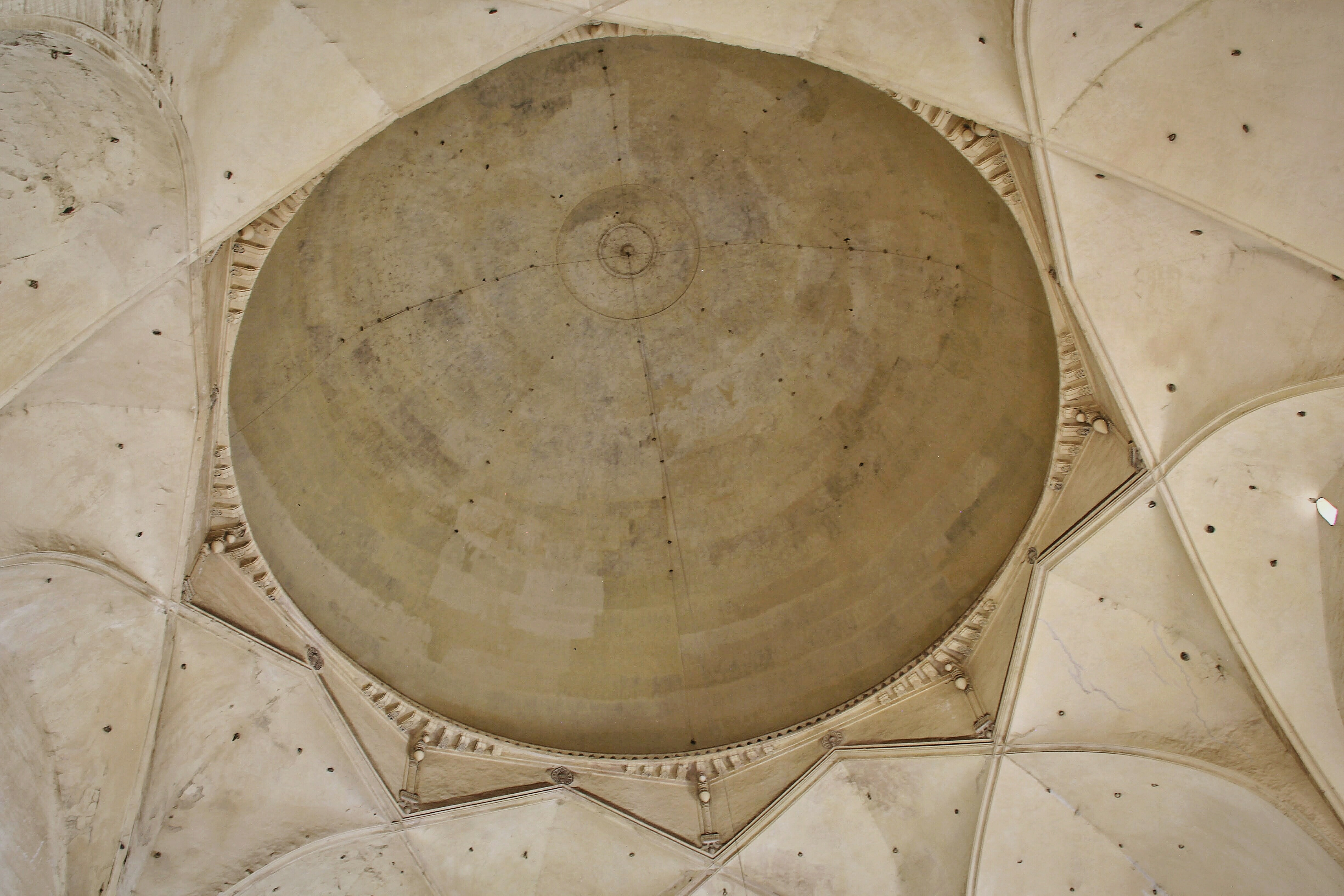 Dome with arches.